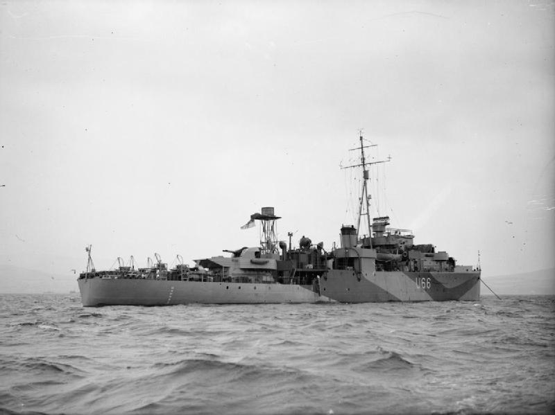 The Battle of the Atlantic 1939-1945 British Forces: HMS STARLING, a Black Swan class sloop built in 1942. STARLING was commanded by Captain F J Walker CB DSO RN.